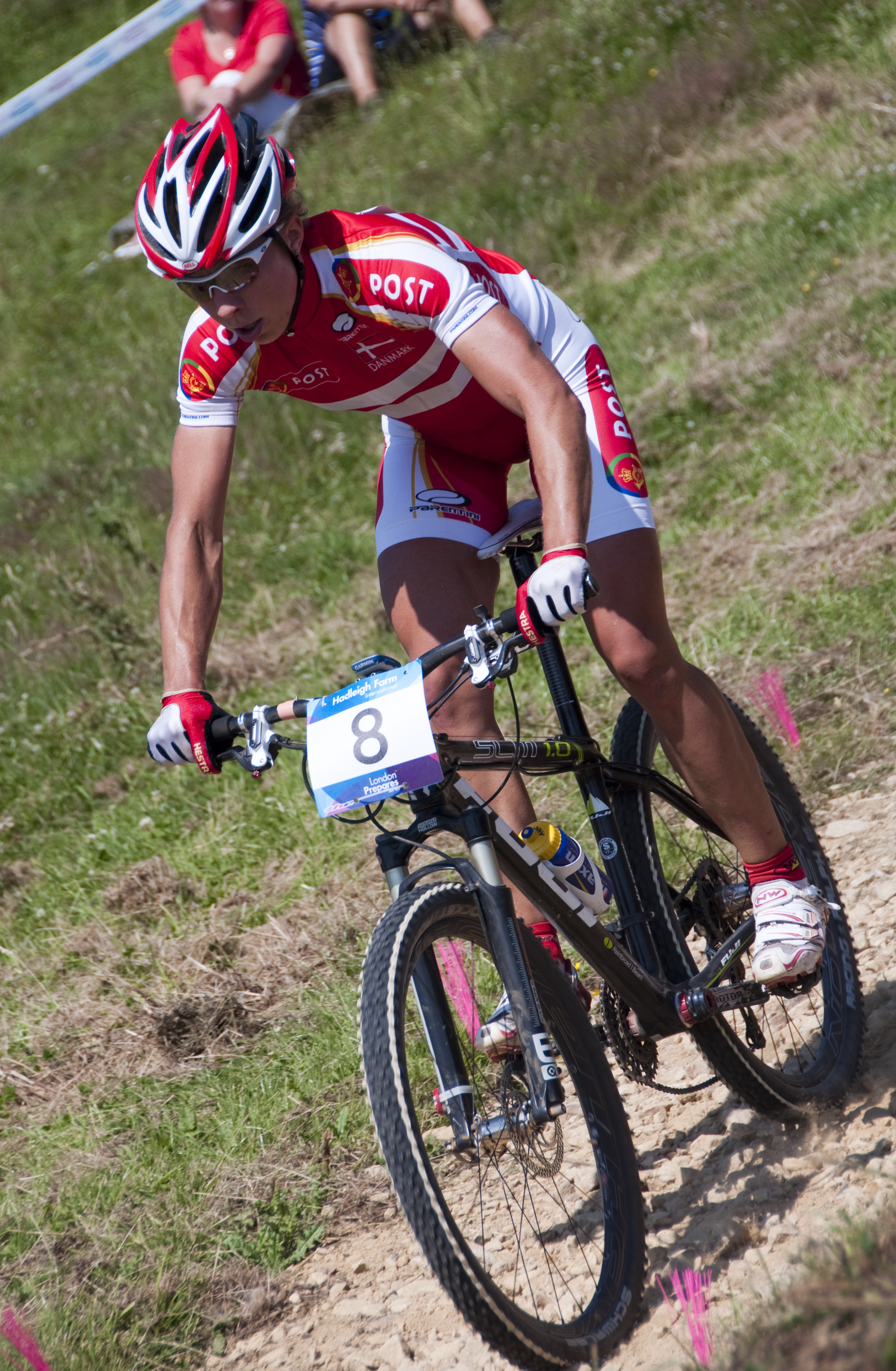 On the 2012 Olympic Mountain Bike course